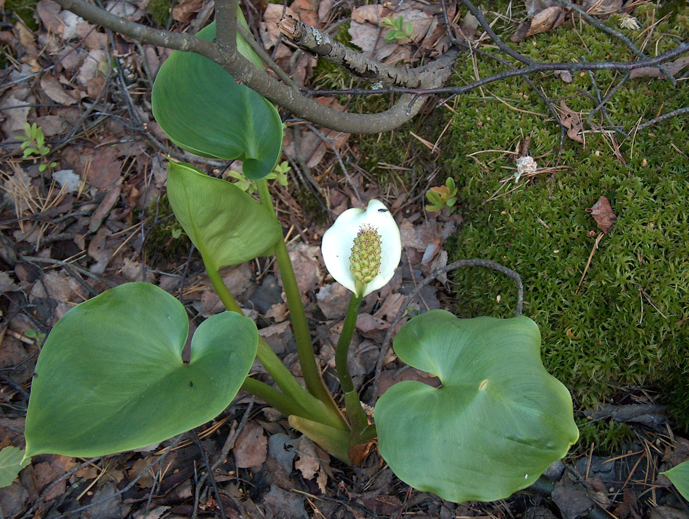 Calla palustris, Water Arum, Marsh Calla in Kerava, Finland